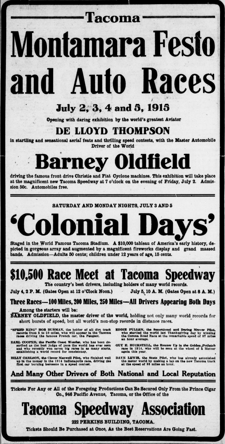 An advertisement for the inaugural race at Tacoma Speedway, published in the Tacoma Times on June 9, 1915.